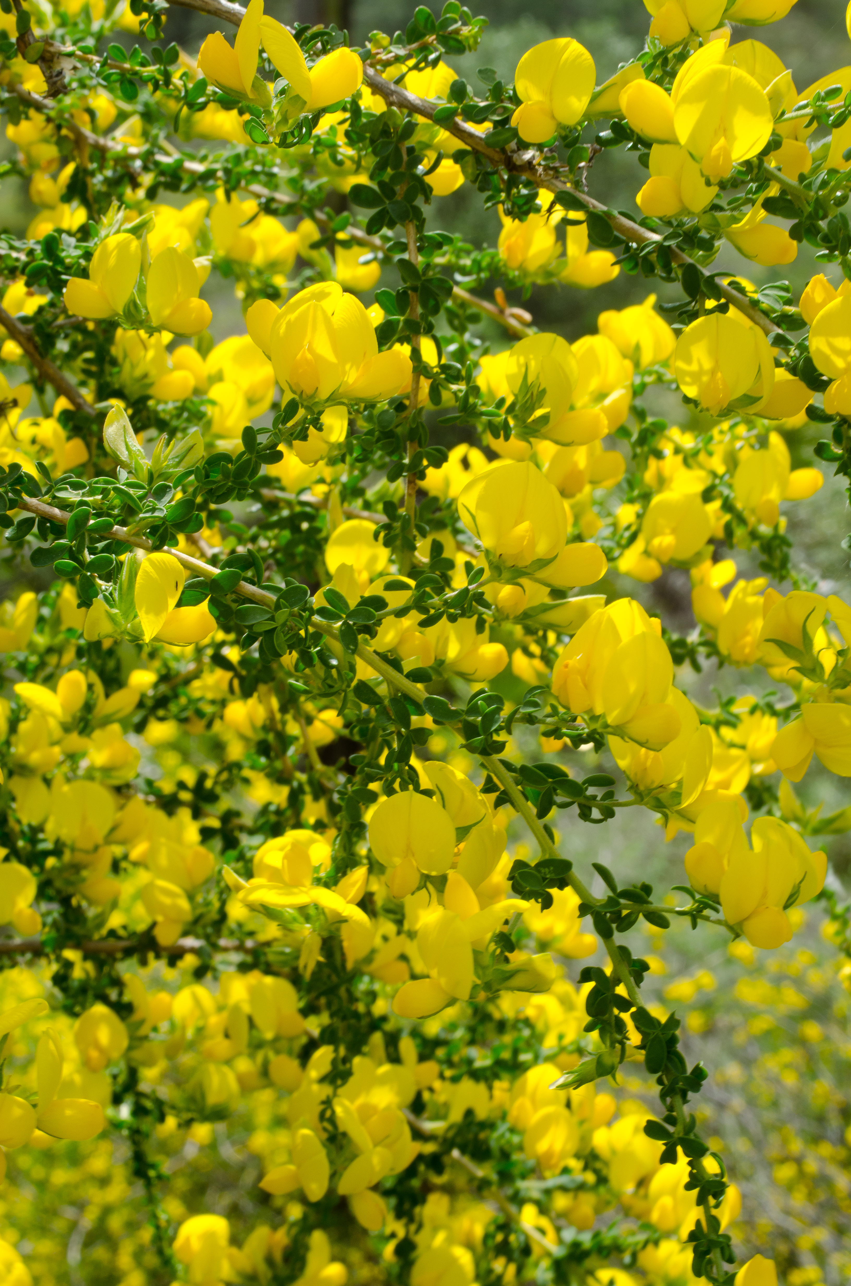 Flowering Adenocarpus telonensis in Valverde del Camino, Spain